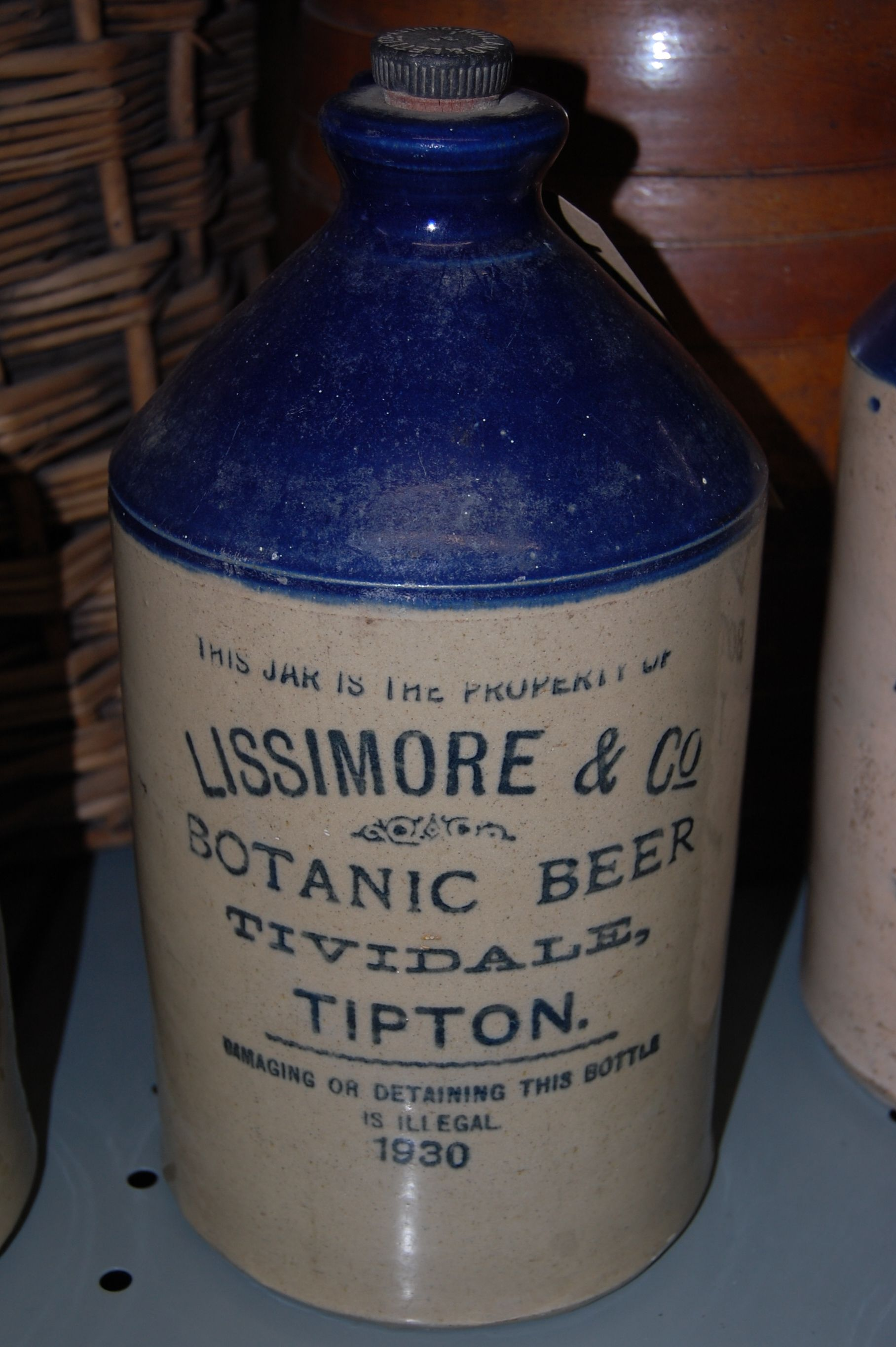 Stone bottle labelled "This jar is the property of - Lissimore & Co - Botanic beer - Tiividale, Tipton - damaging or detaining this bottle is illegal" and dated 1930, in a storeroom of the Black Country Living Museum.